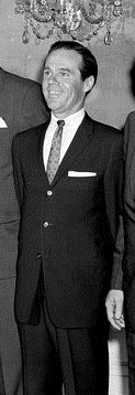 Donald D. Clancy congressman and Mayor of Cincinnati, Ohio cropped from a White House photo May 18, 1961.